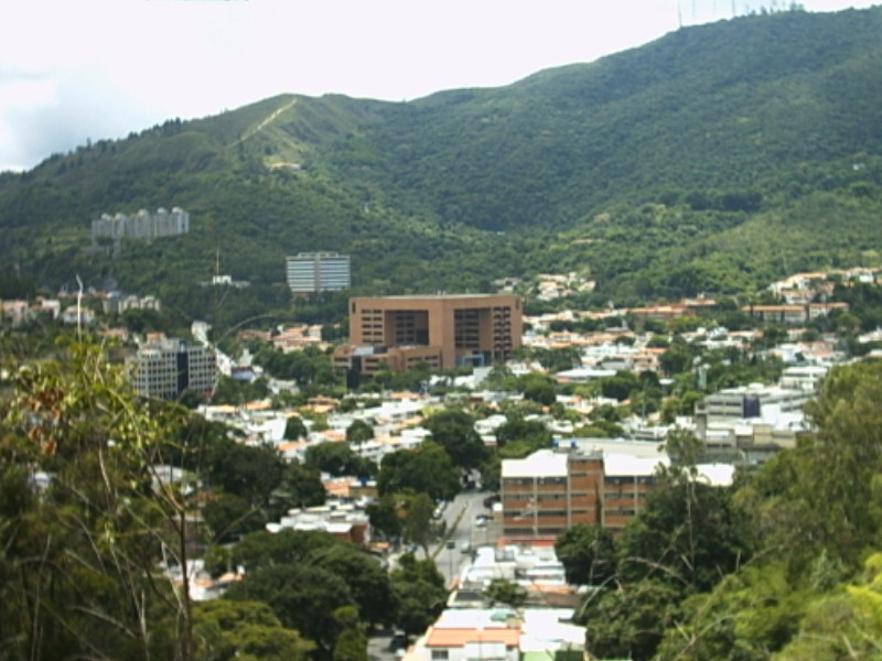 I´m the author of this photo, i take it in August 2006. Guillermo Ramos Flamerich